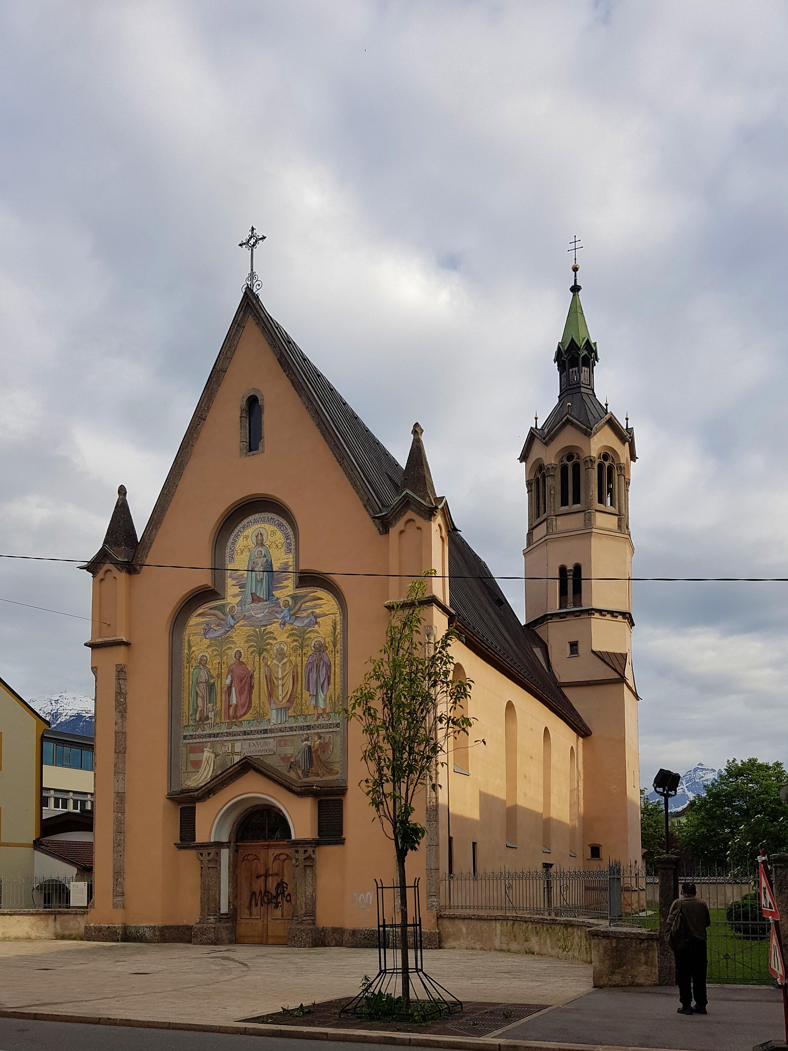 Dreiheiligenkirche